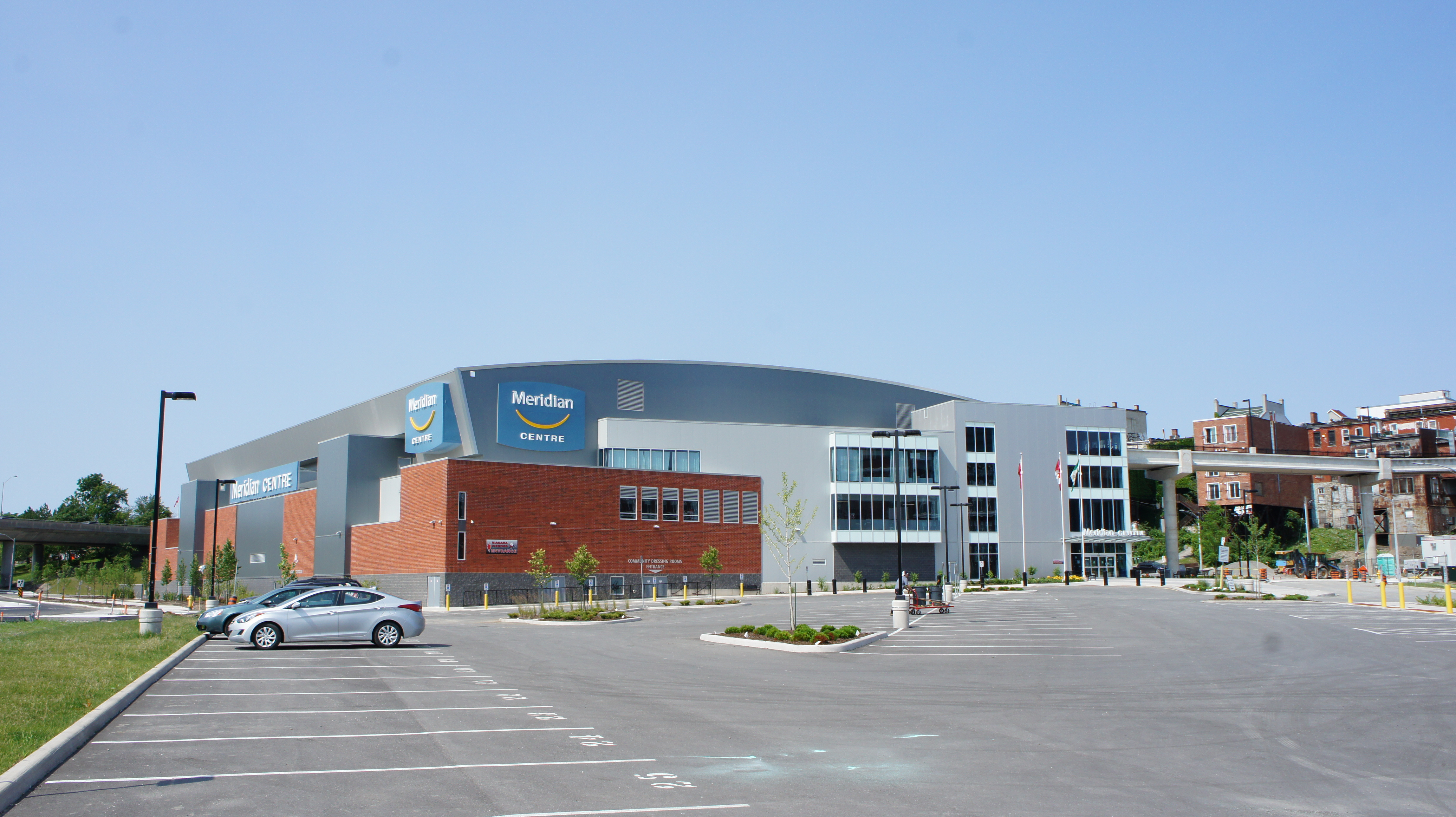 Meridian Centre - Exterior, St. Catherines Ontario